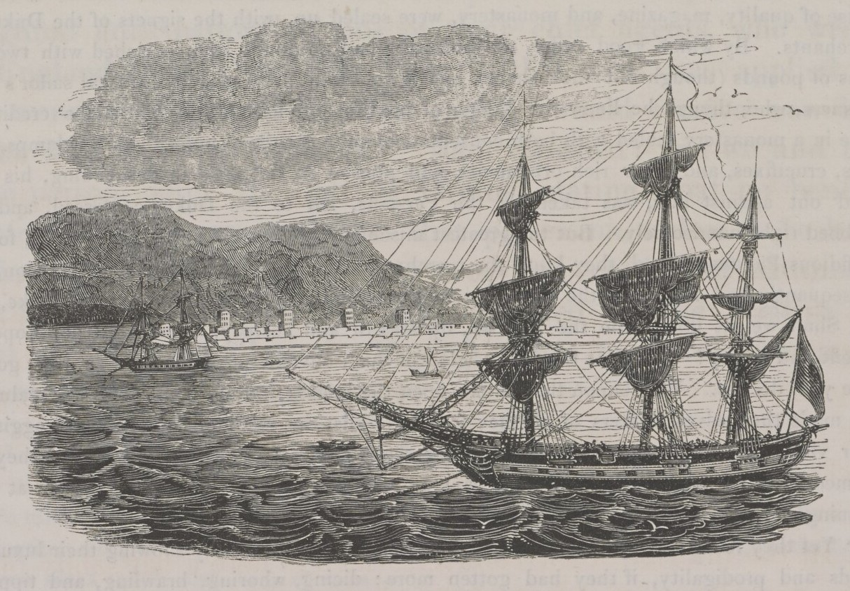 ‘Ras-el-Khyma, the chief port of the Wahabee pirates’ from p. 476 of 'Travels in Assyria, Media, and Persia, including a journey from Bagdad by Mount Zagros, to Hamadan, the ancient Ecbatana, researches in Ispahan and the ruins of Persepolis, and journey from thence by Shiraz and Shapoor to the sea-shore. Description of Bussorah, Bushire, Bahrein, Ormuz, and Muscat, narrative of an expedition against the pirates of the Persian Gulf, with illustrations of the voyage of Nearchus, and passage by the Arabian Sea to Bombay' by James Silk Buckingham.